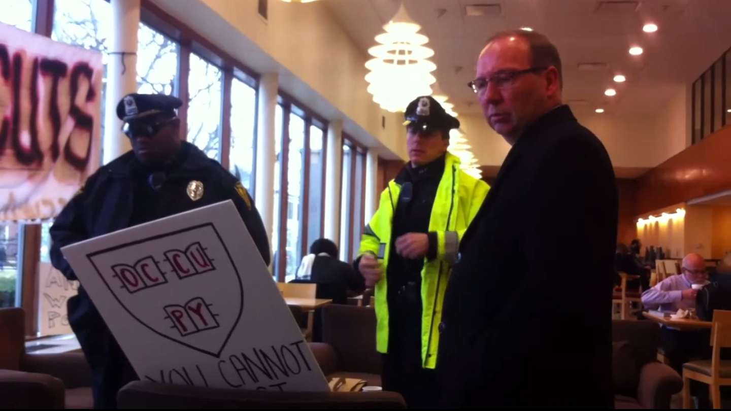 A man in a suit (who refuses to identify himself), backed by Harvard Police, demands that student members of Occupy Harvard remove their signs from Lamont Library.